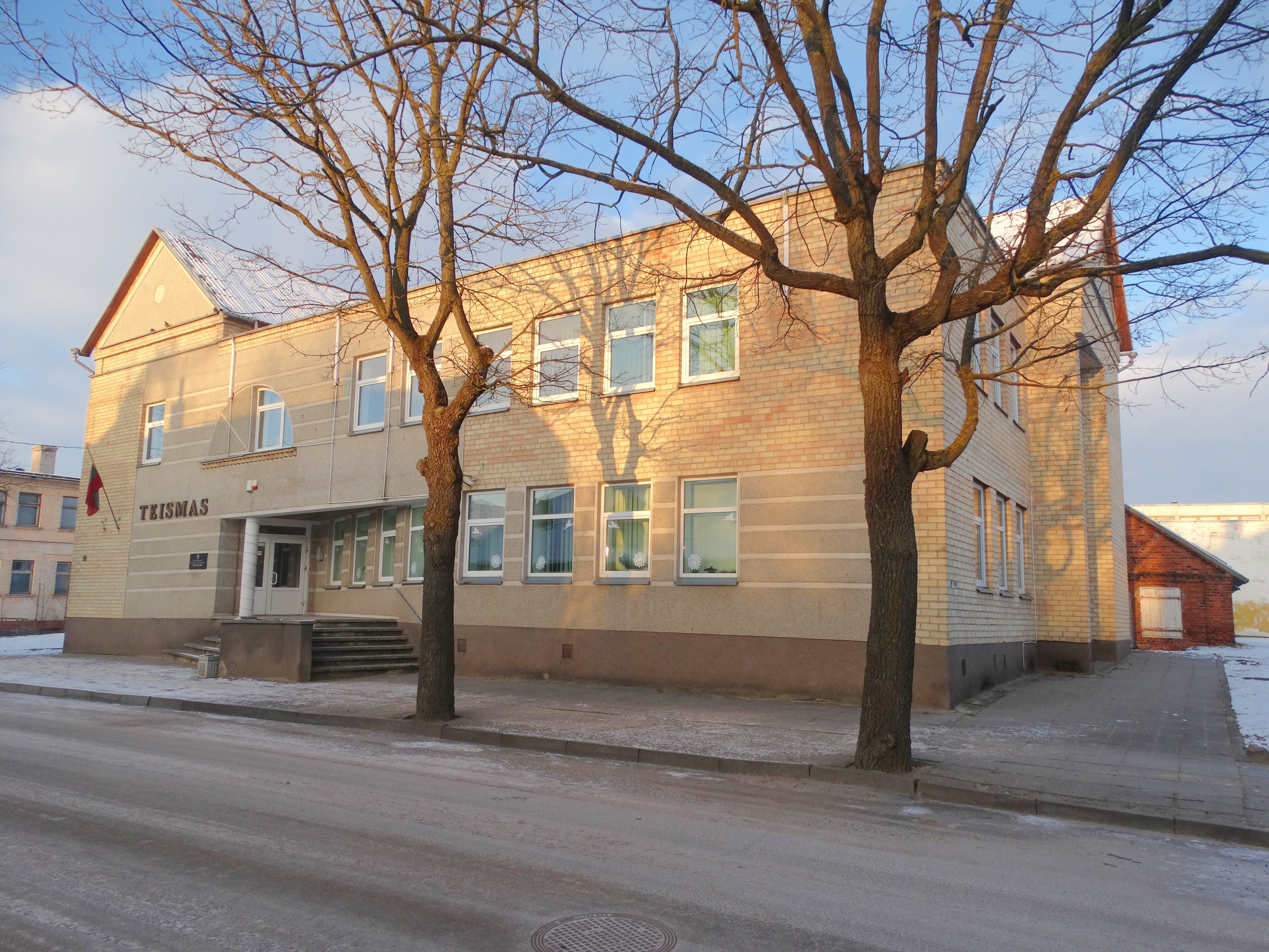 Court, Radviliškis, Lithuania